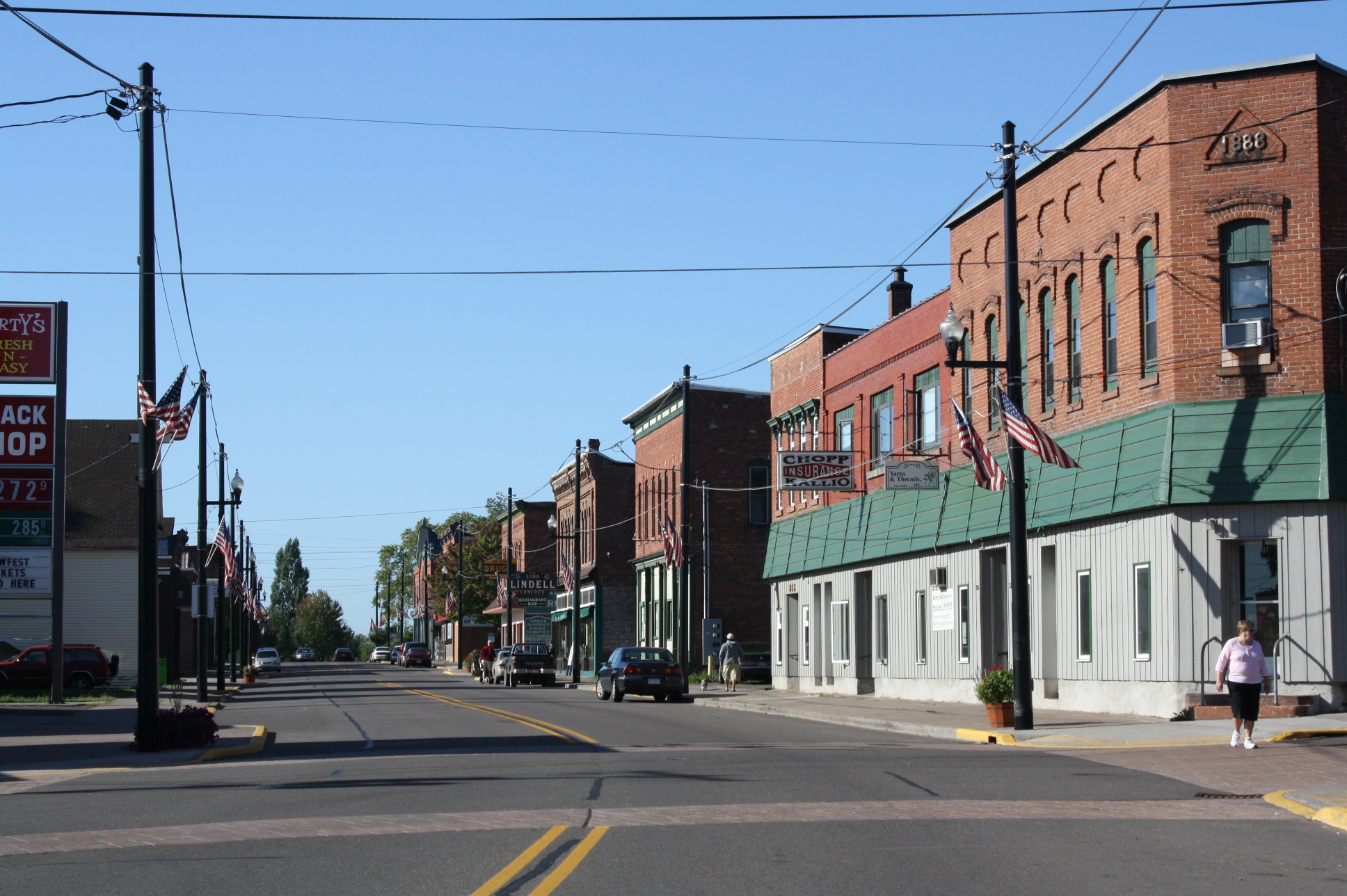 Looking south in downtown Lake Linden, Michigan on M-26 (Michigan highway), listed on the National Register of Historic Places as the Lake Linden Historic District.